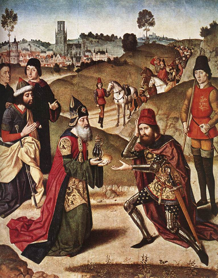 Photograph of medieval canvas "Abraham and Melchisedek"